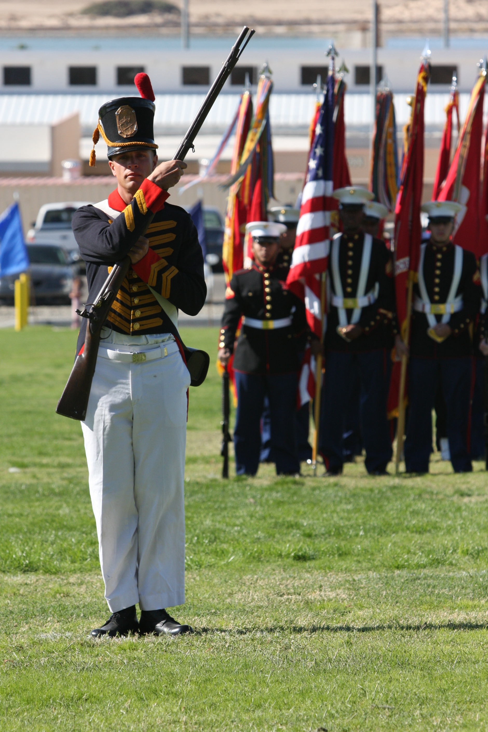 2008 U.S. Marine Corps Birthday Pageant at Twentynine Palms: Lance Cpl. Daniel H. Ealy, Company B, 1st Battalion, 7th Marine Regiment, dressed as a Marine from 1812 and stood at parade rest while a biography of the Corps in 1812 was narrated during the Combat Center’s 2008 Birthday Pageant at Lance Cpl. Torrey L. Gray Field on November 5, 2008.